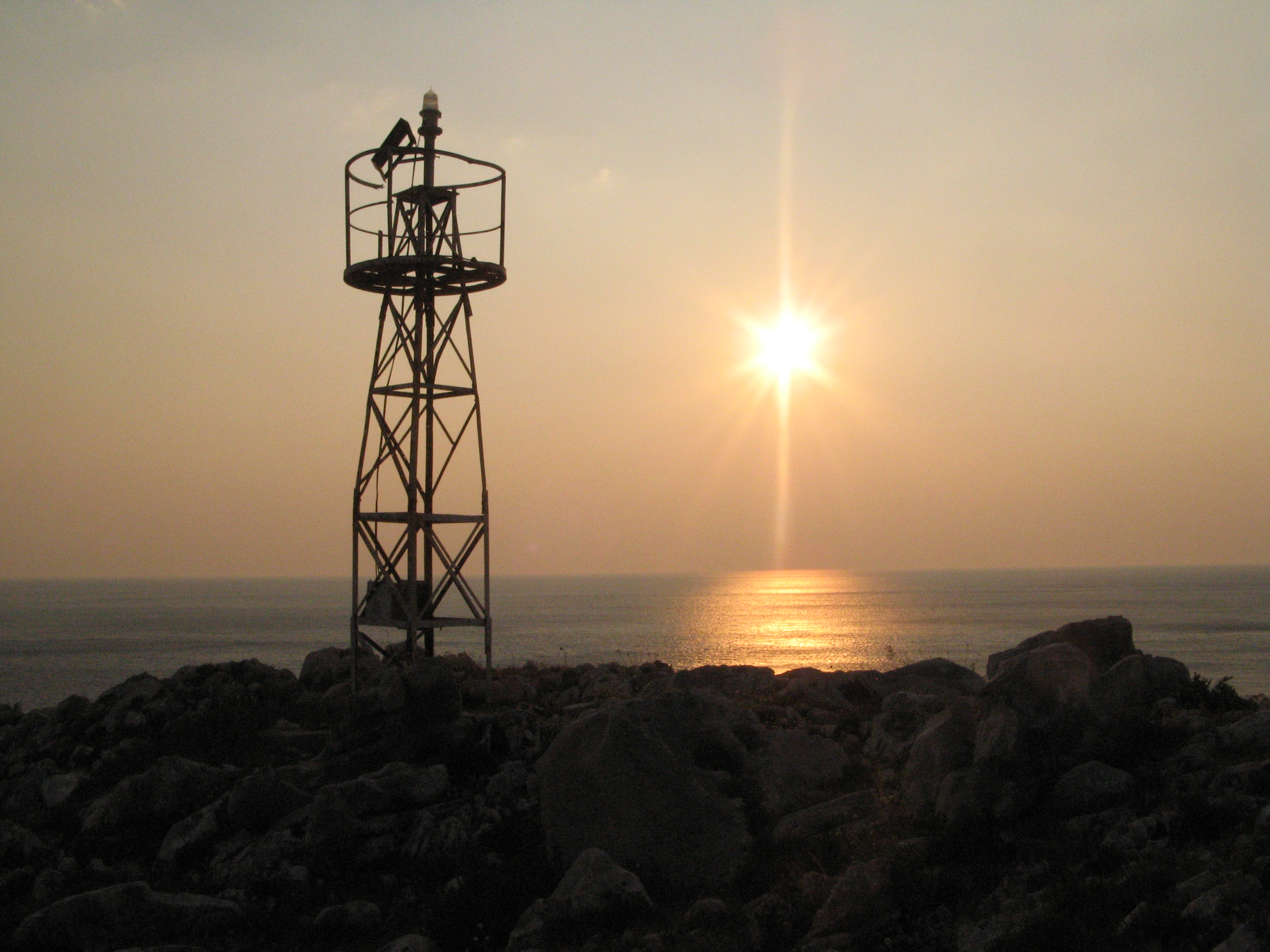 Lighthouse near Grama Bay